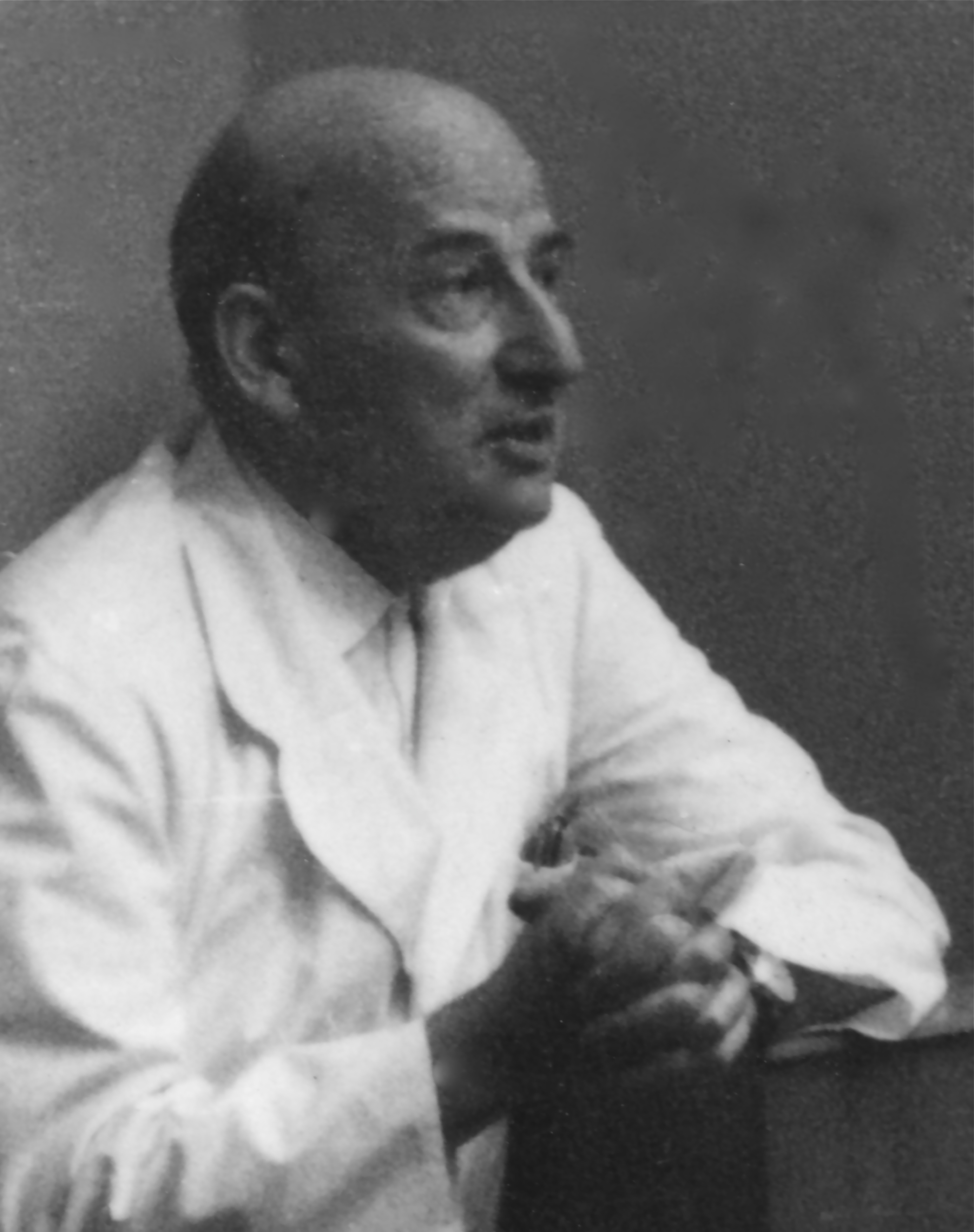 Kurt Schröder 1960 during a lecture at Medical Academy Erfurt, Thuringia, Germany Depicted person: Kurt Schröder (Arzt)